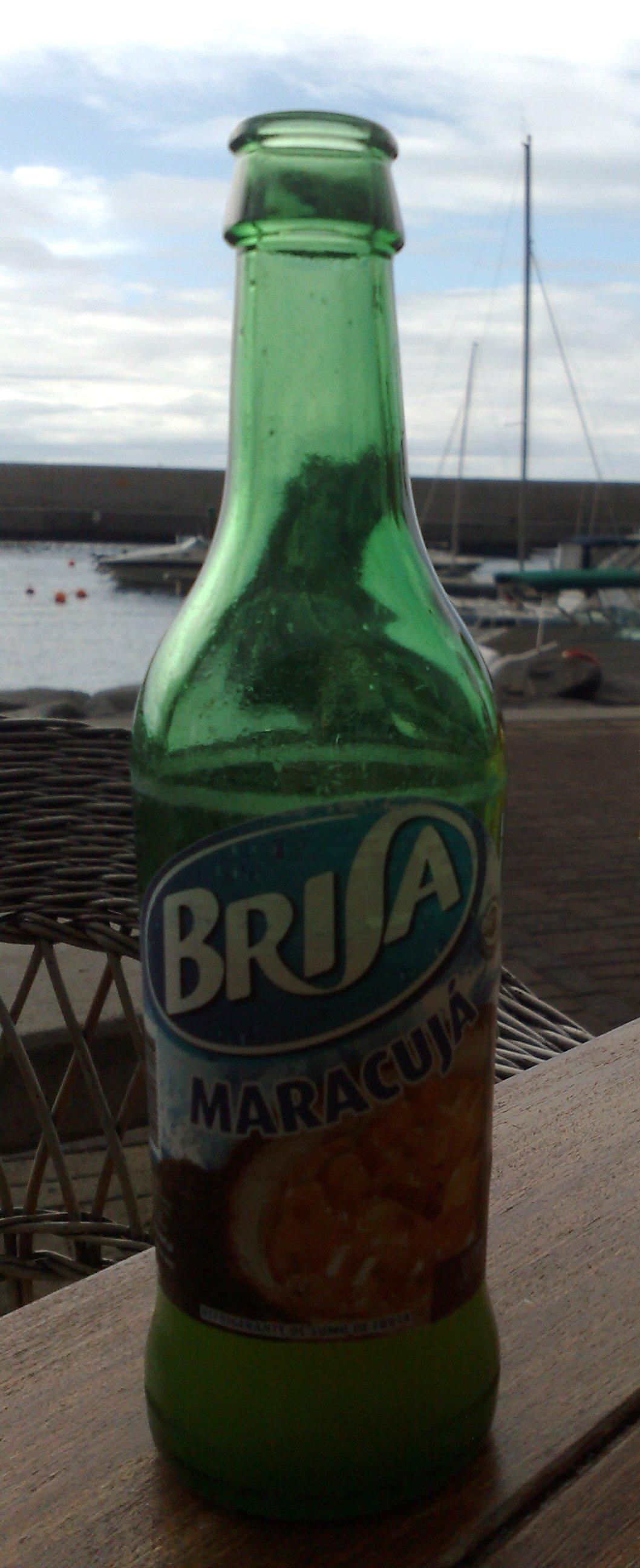 Brisa Maracujá ("passion fruit" in Portuguese) is a popular soft drink on Madeira - appropriately, passion fruit is one of the island's staple crops.